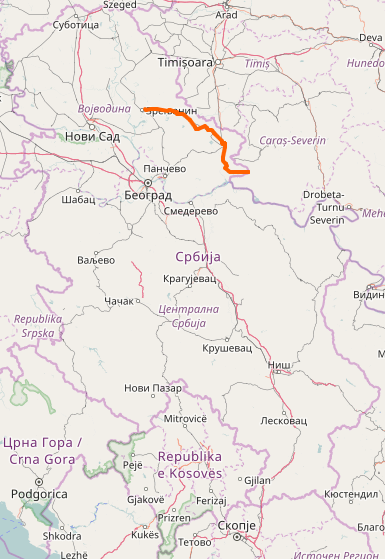 OpenStreetMap of State Road 18 in Serbia.